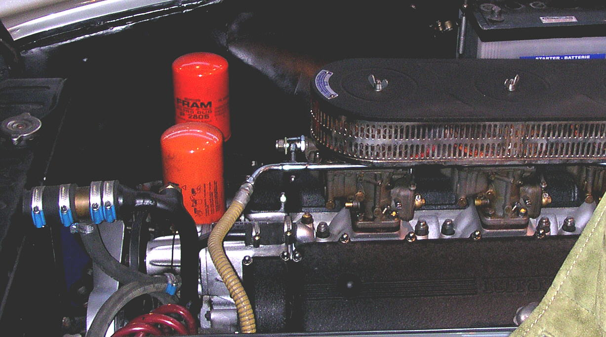 Essen Techno-Classica 2007, Ferrari 250 GT PF Coupé, Series II 1959, V12 engine, 2953 cc